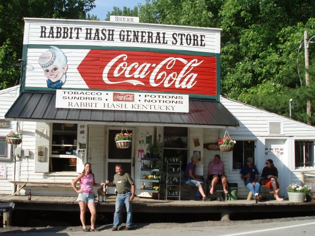 This is a photo of the general store in Rabbit Hash. The photo was taken by Stuart Ferguson on 5/24/2006